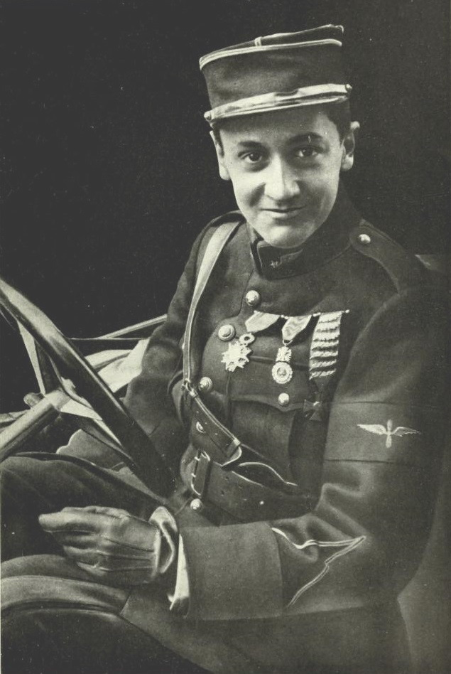 Portrait of Georges Guynemer